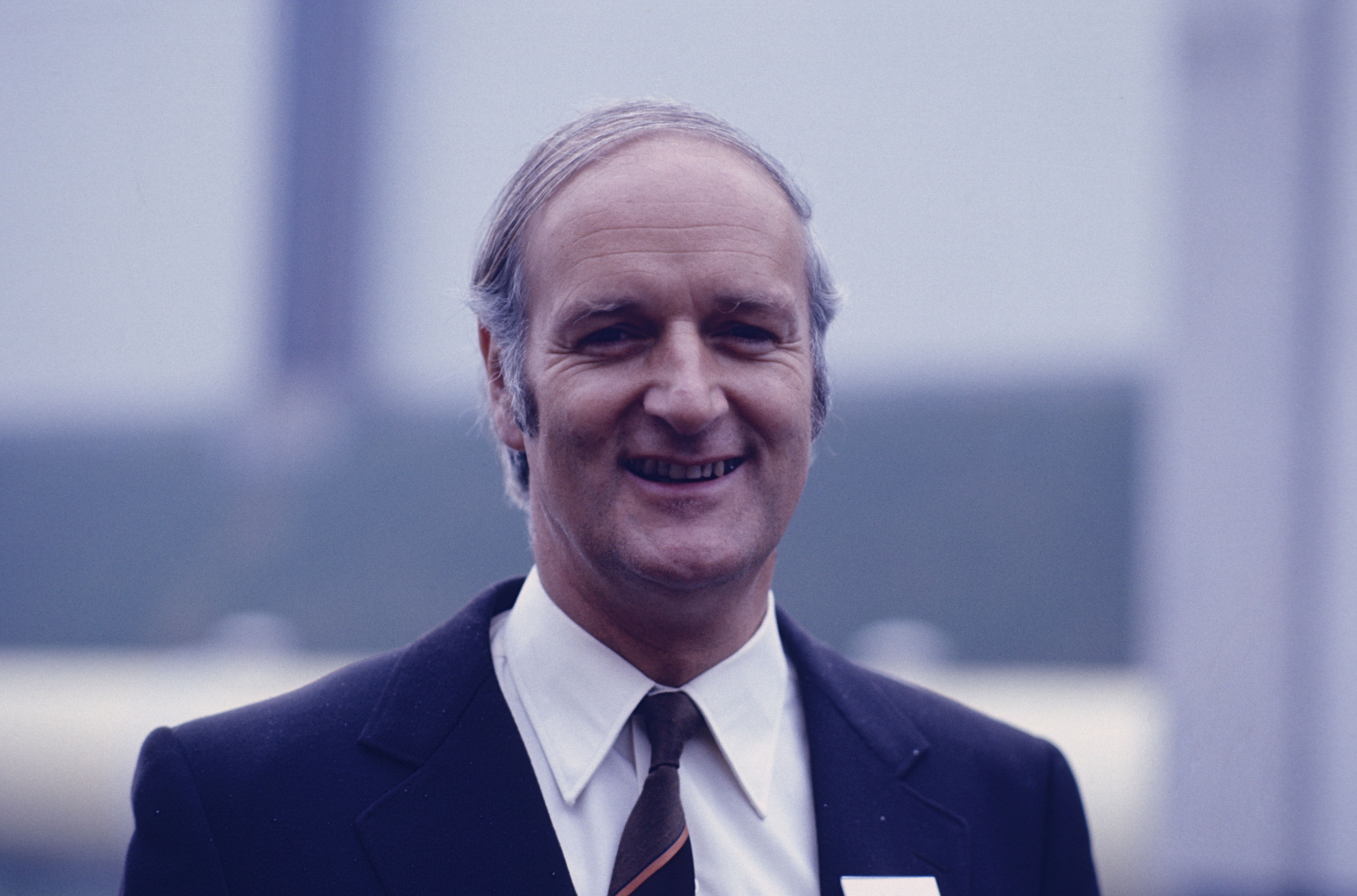 ETH-Professor Jean-Pierre Blaser (1972)